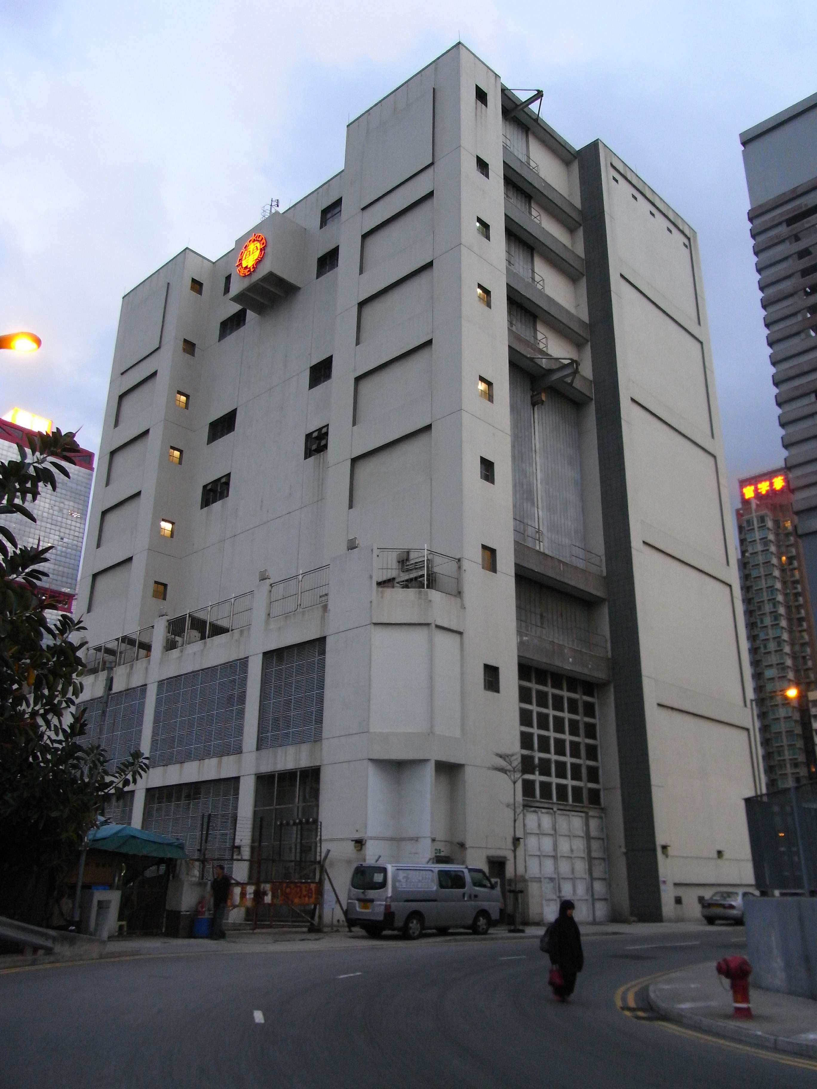 Hongkong Electric Power Asset Holdings, Sheung Wan Zone Sub-station, Western Fire Services Street, Sheung Wan, Hong Kong